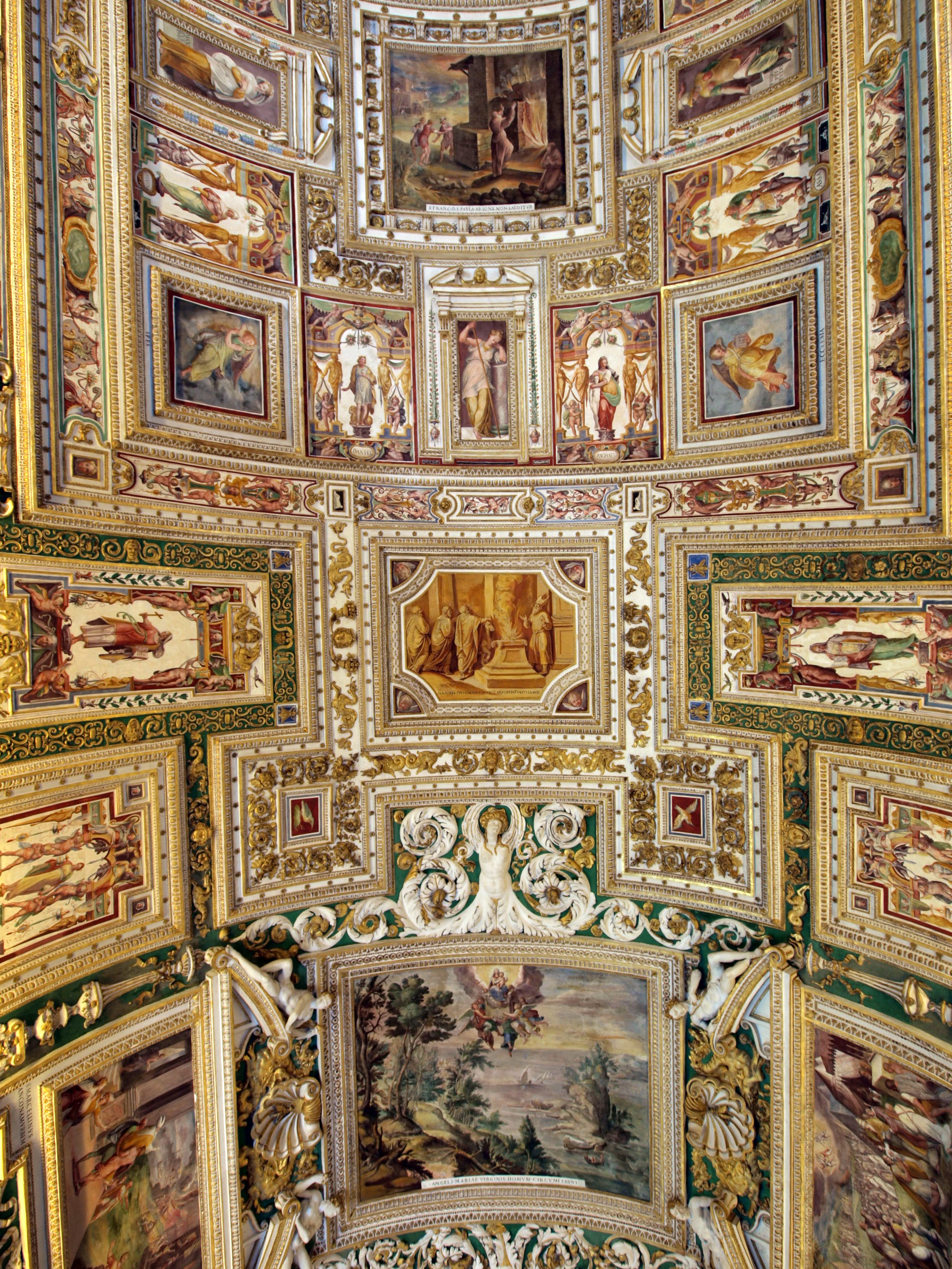 Photographed at the Vatican museum.